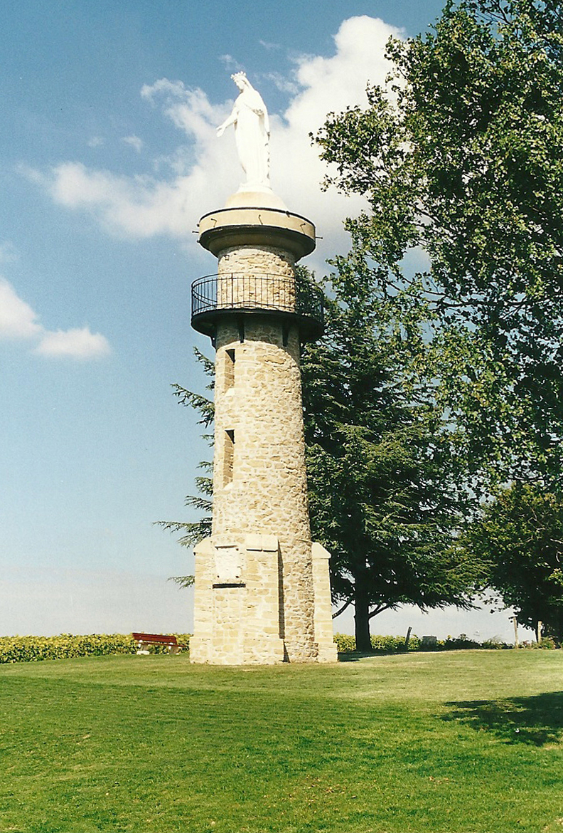 Dominating the commune, the madonna is a place of pilgrimage